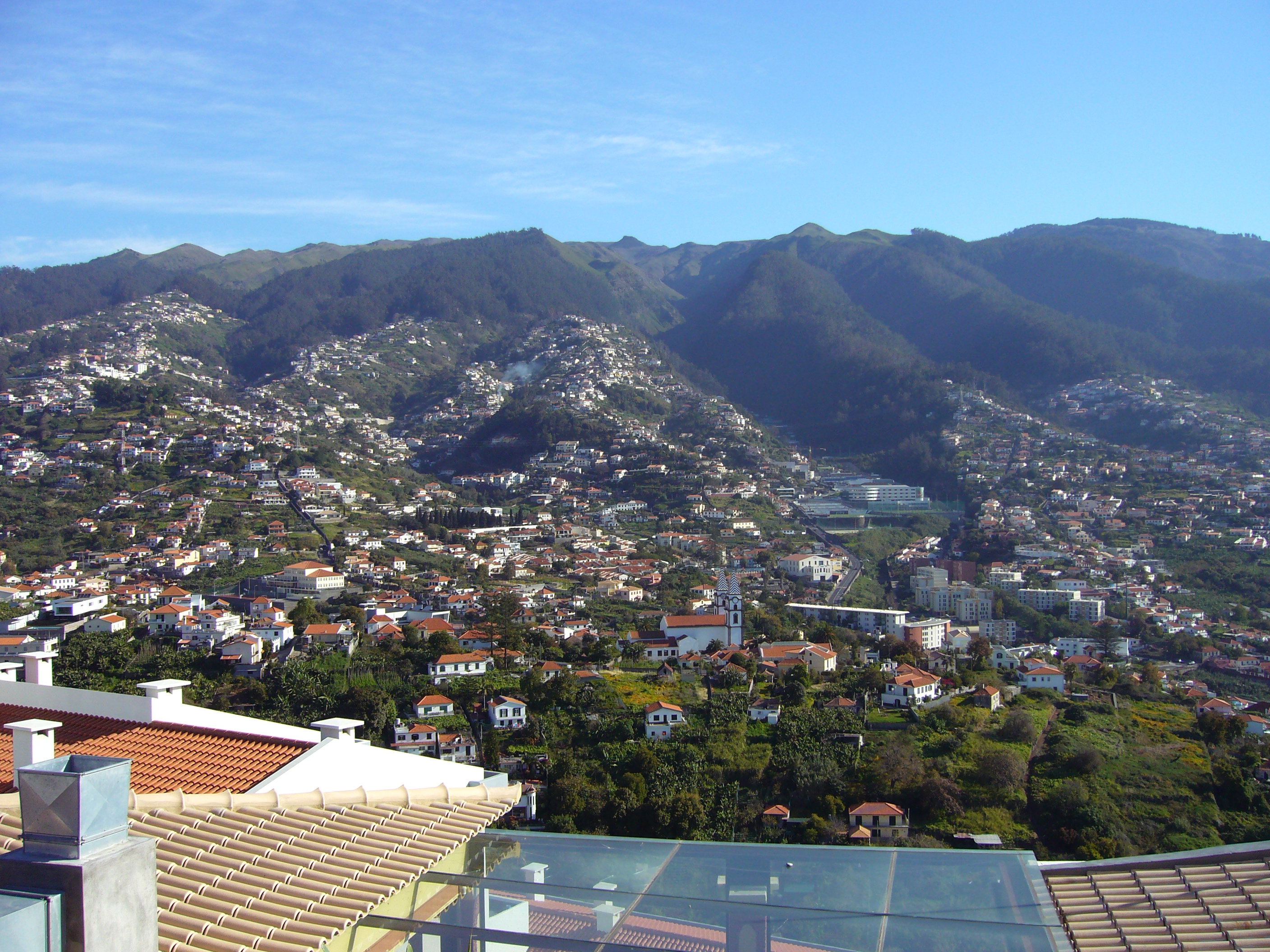 View from Pico dos Barcelos to Santo António, Funchal, Madeira Island